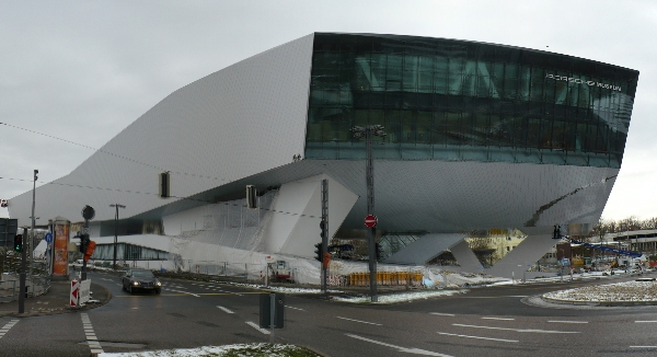 The new Porsche-Museum in Stuttgart-Zuffenhausen.